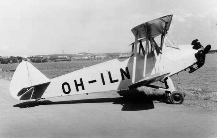 VL Viima II OH-ILN was for a short time in the civilian aircraft register prior to being sold to the Finnish Air Force.